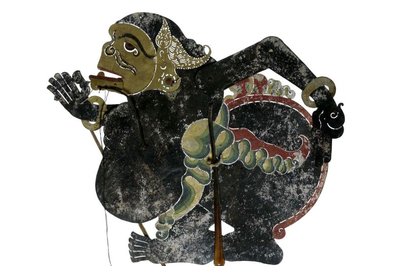 Shadow puppet representing Semar